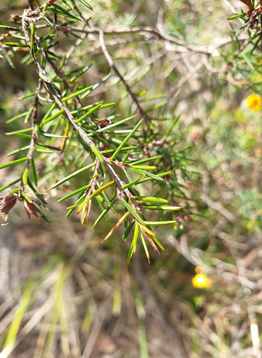 Pultenaea juniperina plant in dry Eucalypt forest at Sandfly, Tasmania ahowing leaf morphology.